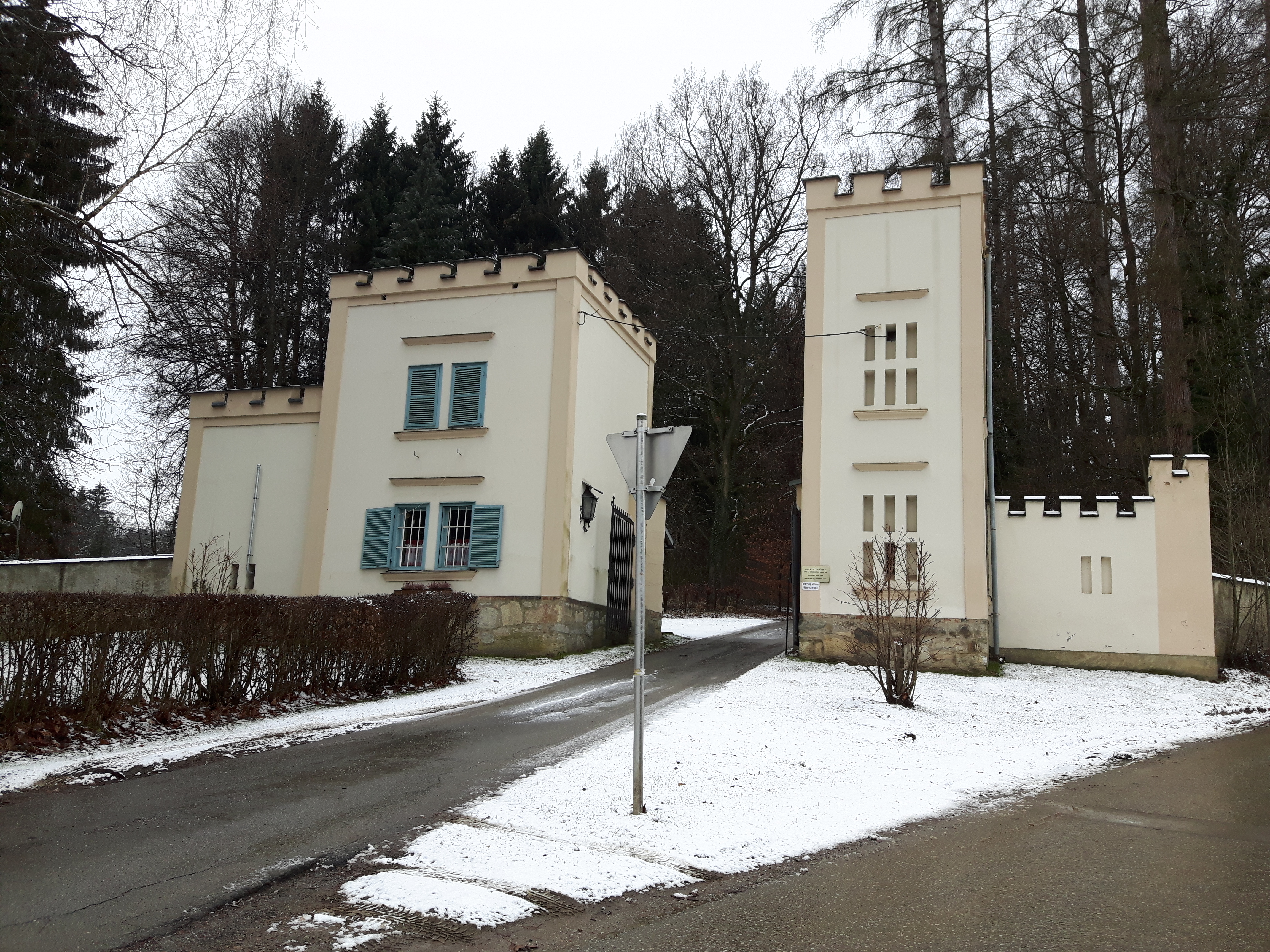 The outer gate of the Schloss Oberthal in Styria.